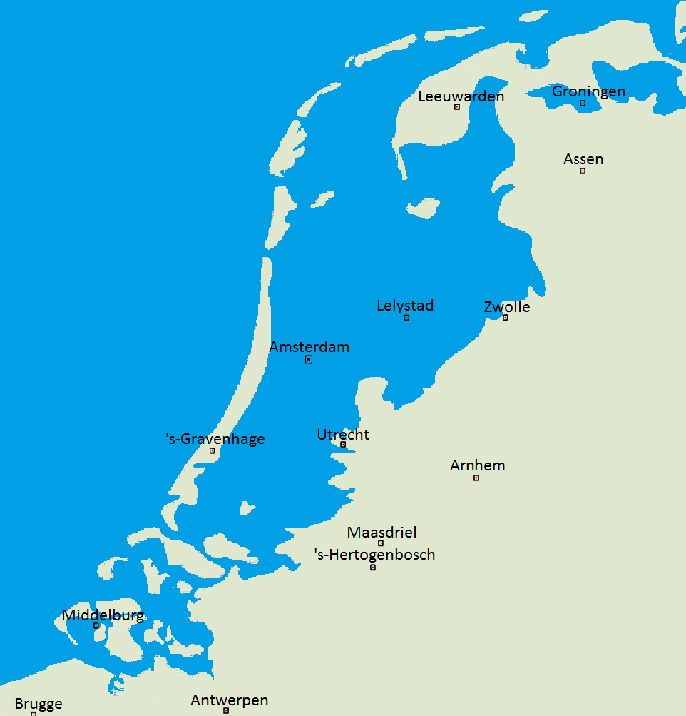 Nederland compared to sealevel.